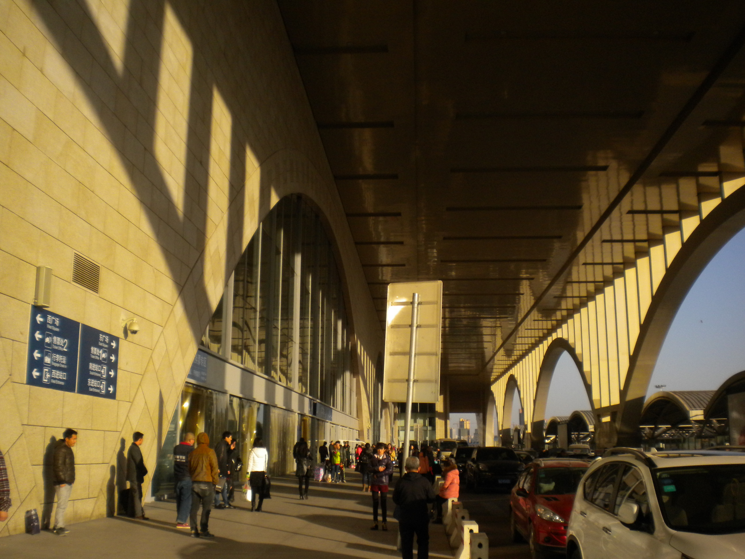 The south entrance to Shijiazhuang Station. Designed like an airport...